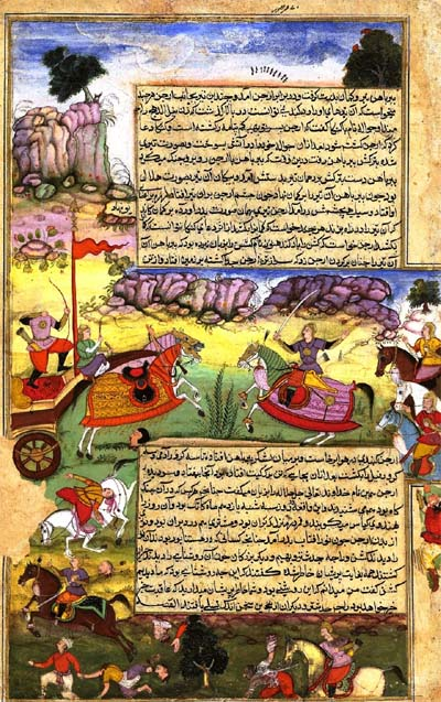 razmnama painting